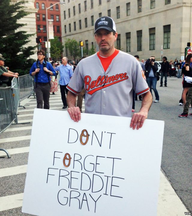 A demonstrator, wearing the uniform of the Orioles baseball team on the street in Baltimore. (VOA photo - Victoria Macchi).